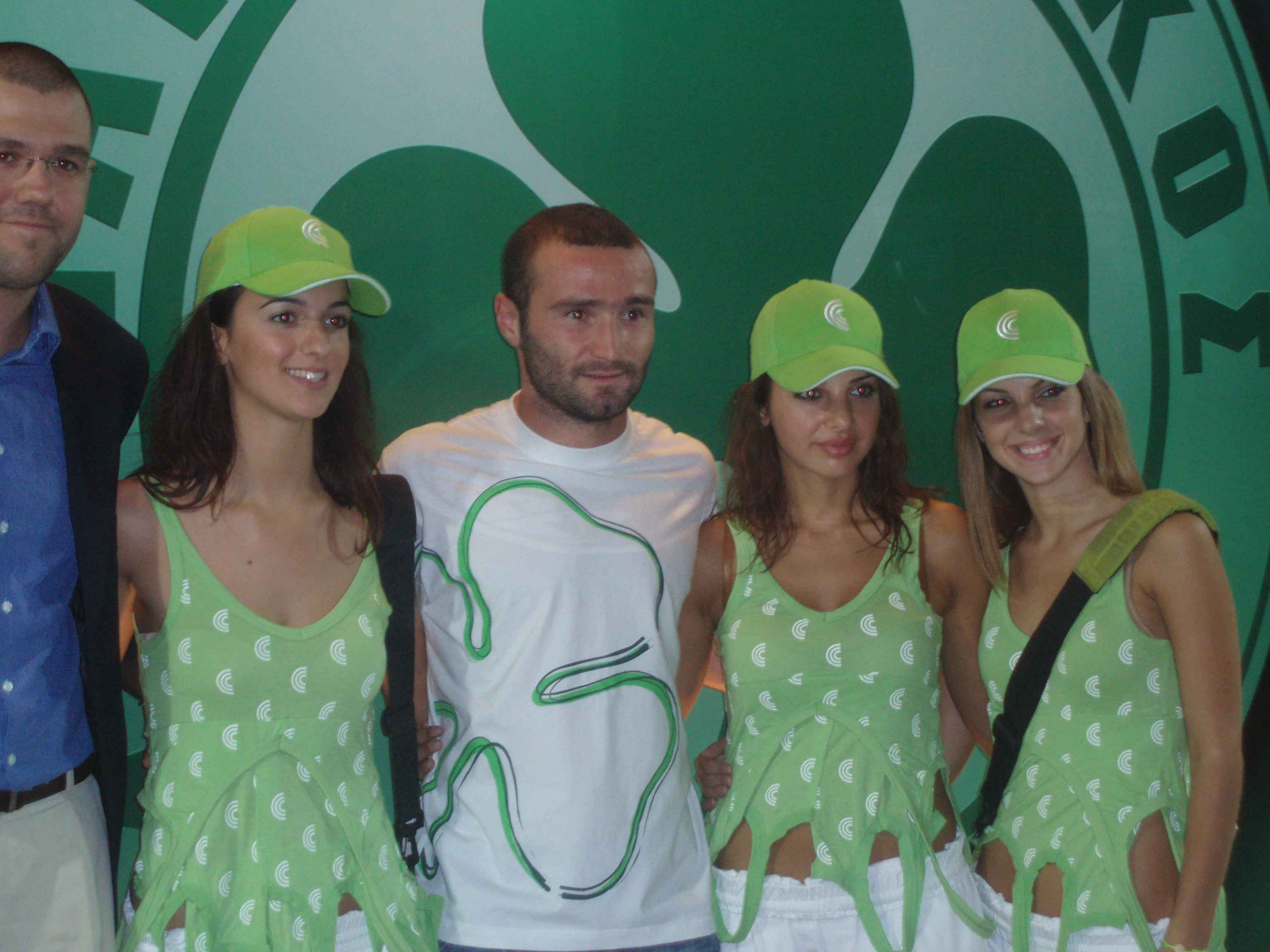 Dimitris Salpigidis at airport with the national team Ellinikon International Airport